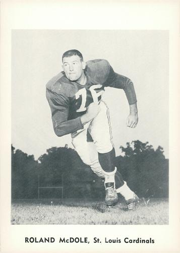 A promotional image of St. Louis Cardinals American football player Roland McDole.